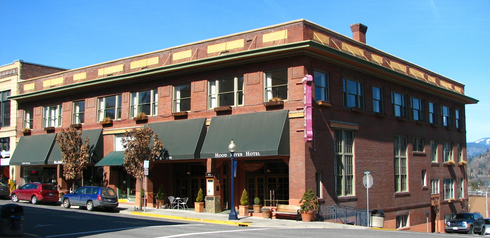 The historic Mount Hood Hotel Annex (built 1911), located at 102-108 Oak Street in Hood River, Oregon, United States, is listed on the US National Register of Historic Places. It continues to be operated as a hotel under the name Hood River Hotel.